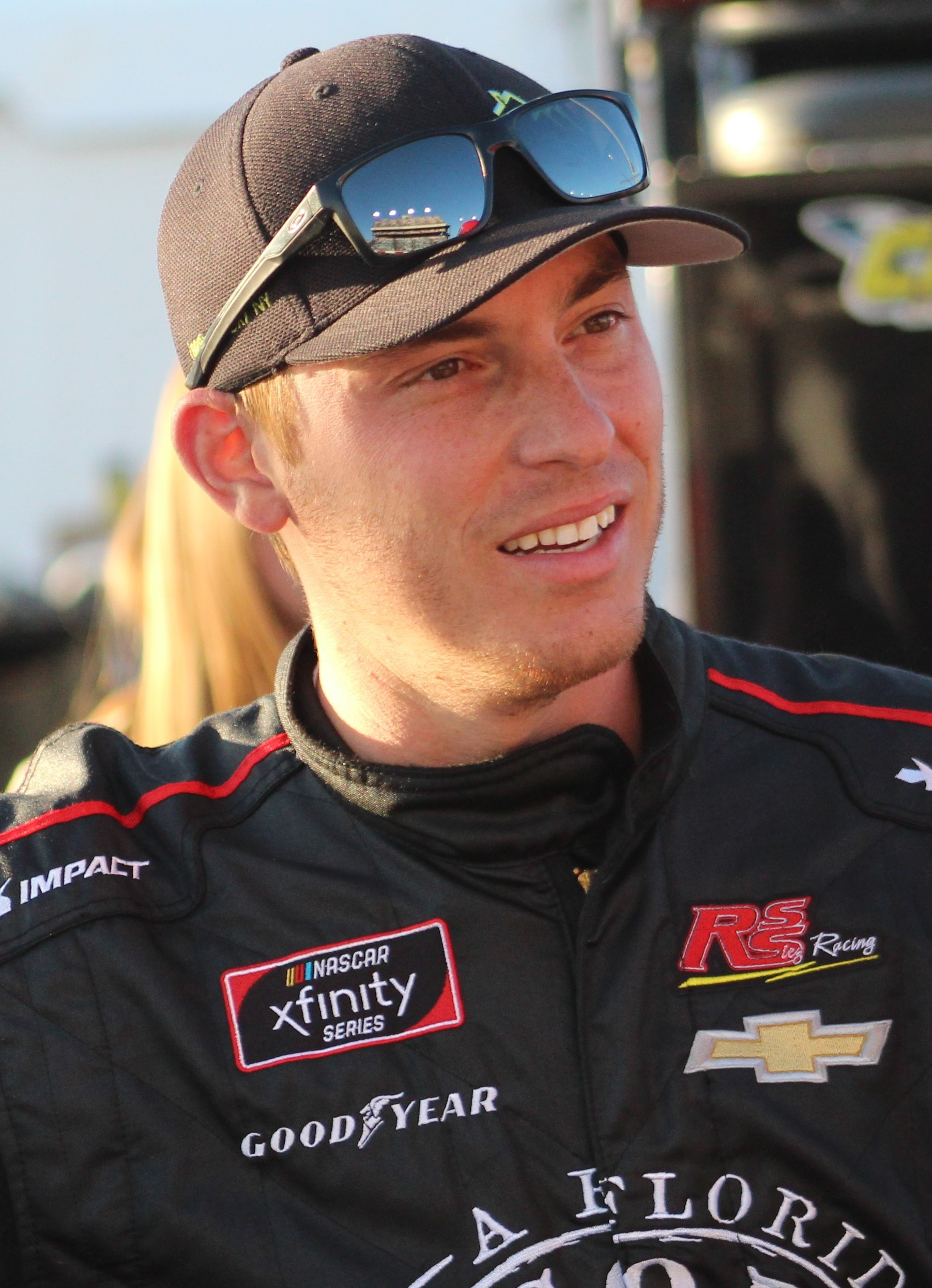 Ryan Sieg at Richmond Raceway in 2018